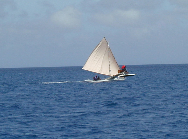 Taken in February, 2004 in the lagoon of Ailuk, one of the many coral atolls which make up the Marshall Islands. Local people use sailing canoes to travel both within their atoll and to visit other nearby atolls.